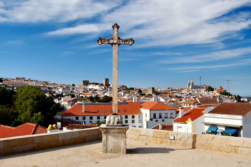 Portalegre_Municipality